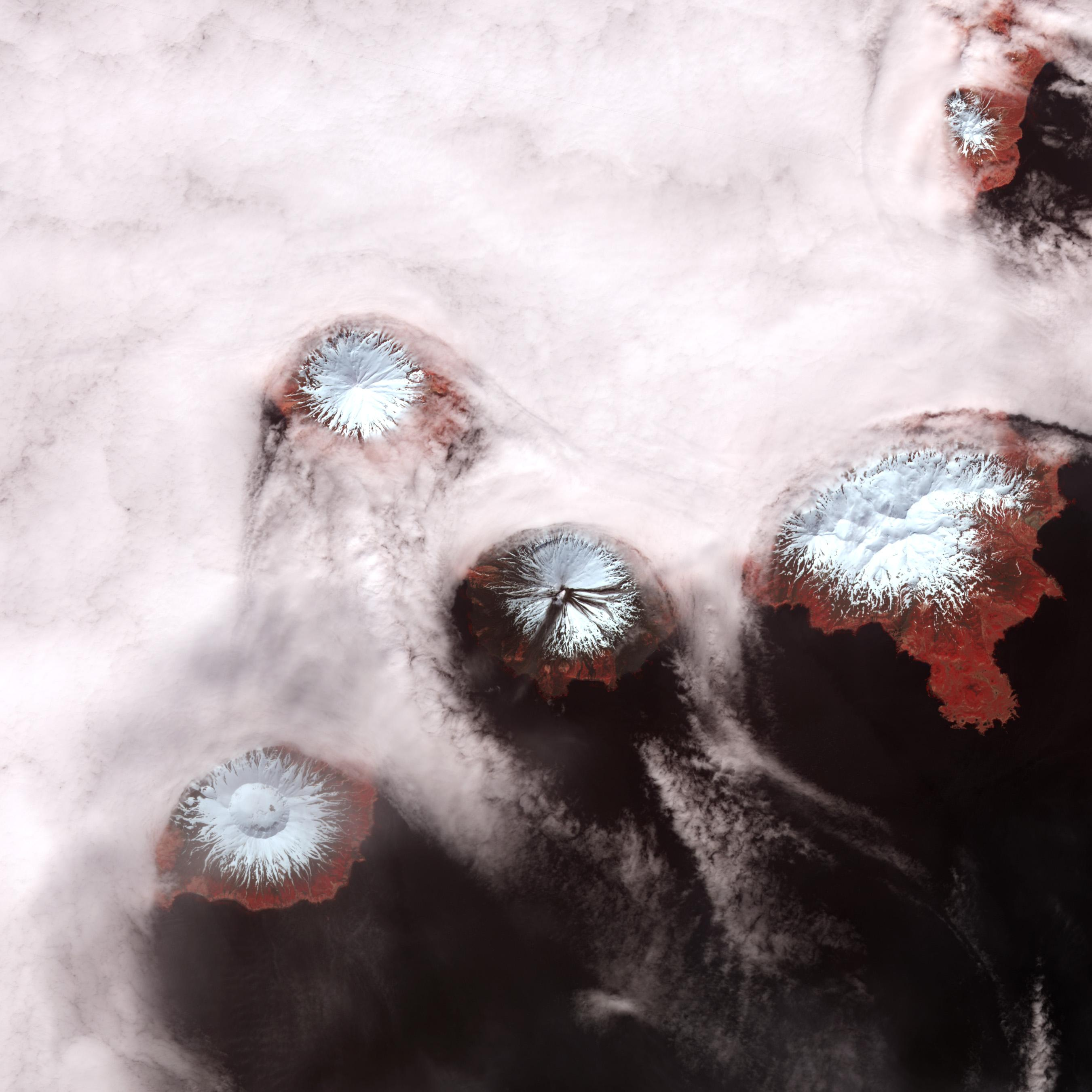 "The picturesque, but snow-capped volcanoes, composing the Islands of the Four Mountains in Alaska's Aleutian Island chain look suspiciously like an alien world in this August 2010 image from the ASTER camera aboard NASA's orbiting Terra satellite. The islands contain restless Mt. Cleveland, an active volcano currently being watched to see if it emits an ash cloud that could affect air travel over parts of North America. A close look at Mt. Cleveland, seen near the image centre, shows red vegetation (false colour), a white snow-covered peak, a light plume of gas and ash, and dark lanes where ash and debris fell or flowed." - NASA